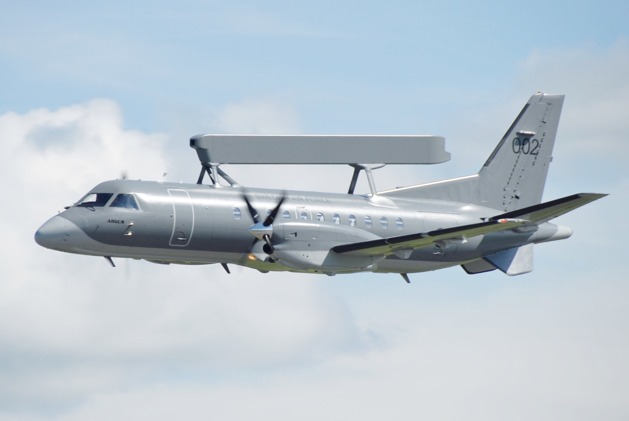 S 100 B Argus in flight at the Swedish Armed Forces' Airshow 2010.